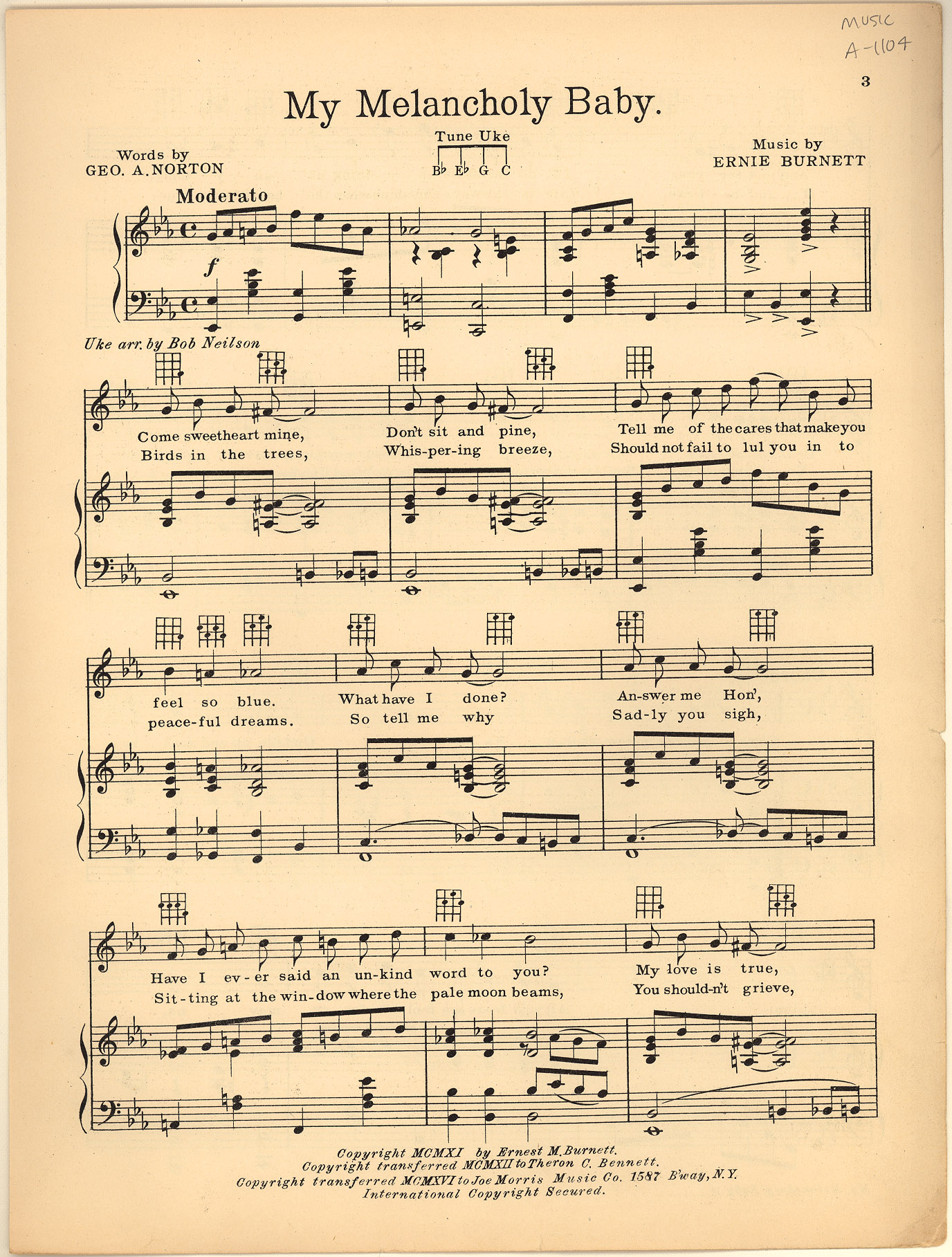 Sheet music of "My Melancholy Baby". Page 1 of 3.